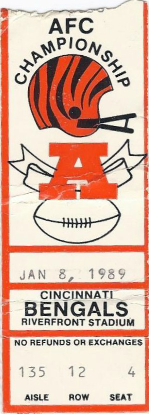 A ticket for the 1989 AFC Championship Game featuring the Buffalo Bills versus the Cincinnati Bengals at Riverfront Stadium on January 8, 1989.